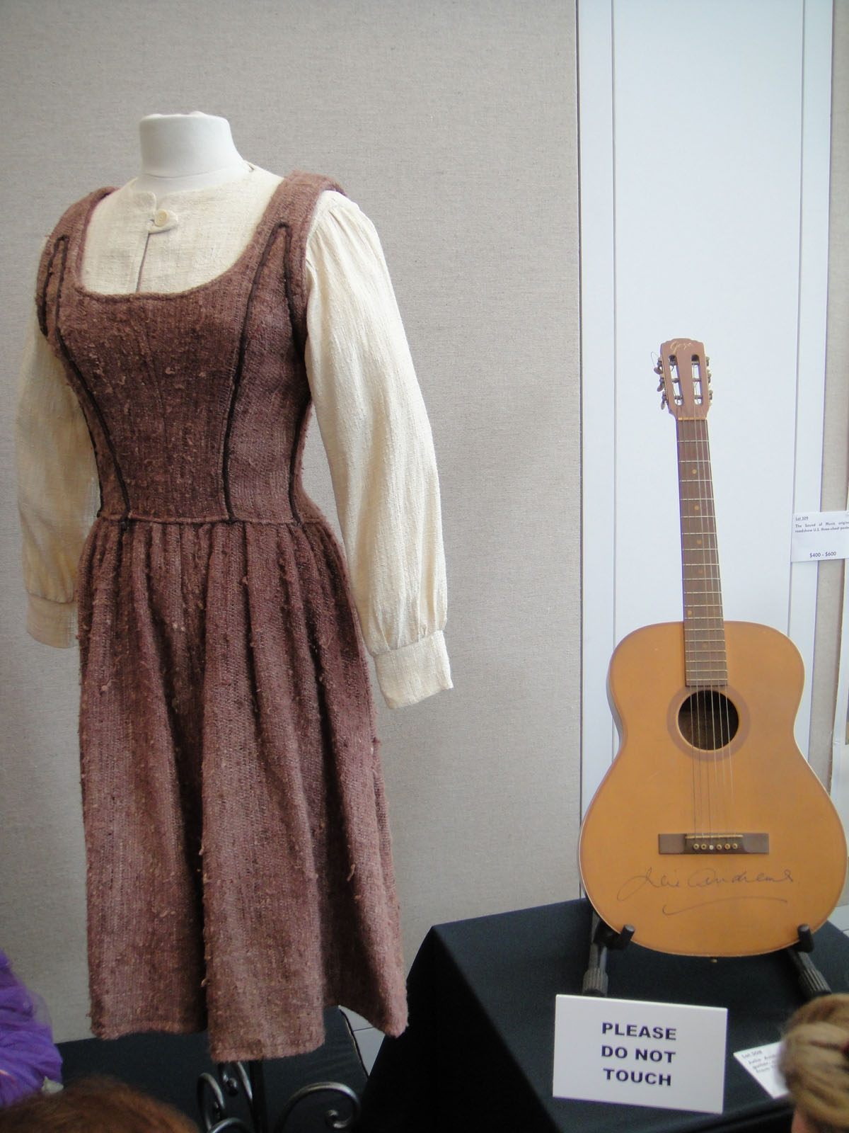 Debbie Reynolds Auction The Sound of Music (film in 1965) Julie Andrews "Maria" costume Goya guitar signed by Andrews photo 2011 " taken by Doug Kline If you're interested in higher resolution versions of my images, contact me via my profile page.